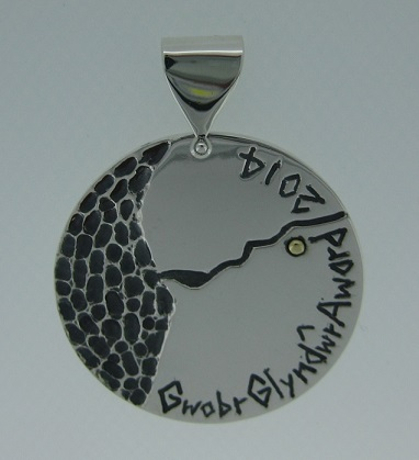 The Glyndwr Award, awarded in 2014 to Angharad Price, by MOMA Machynlleth, for her writing.